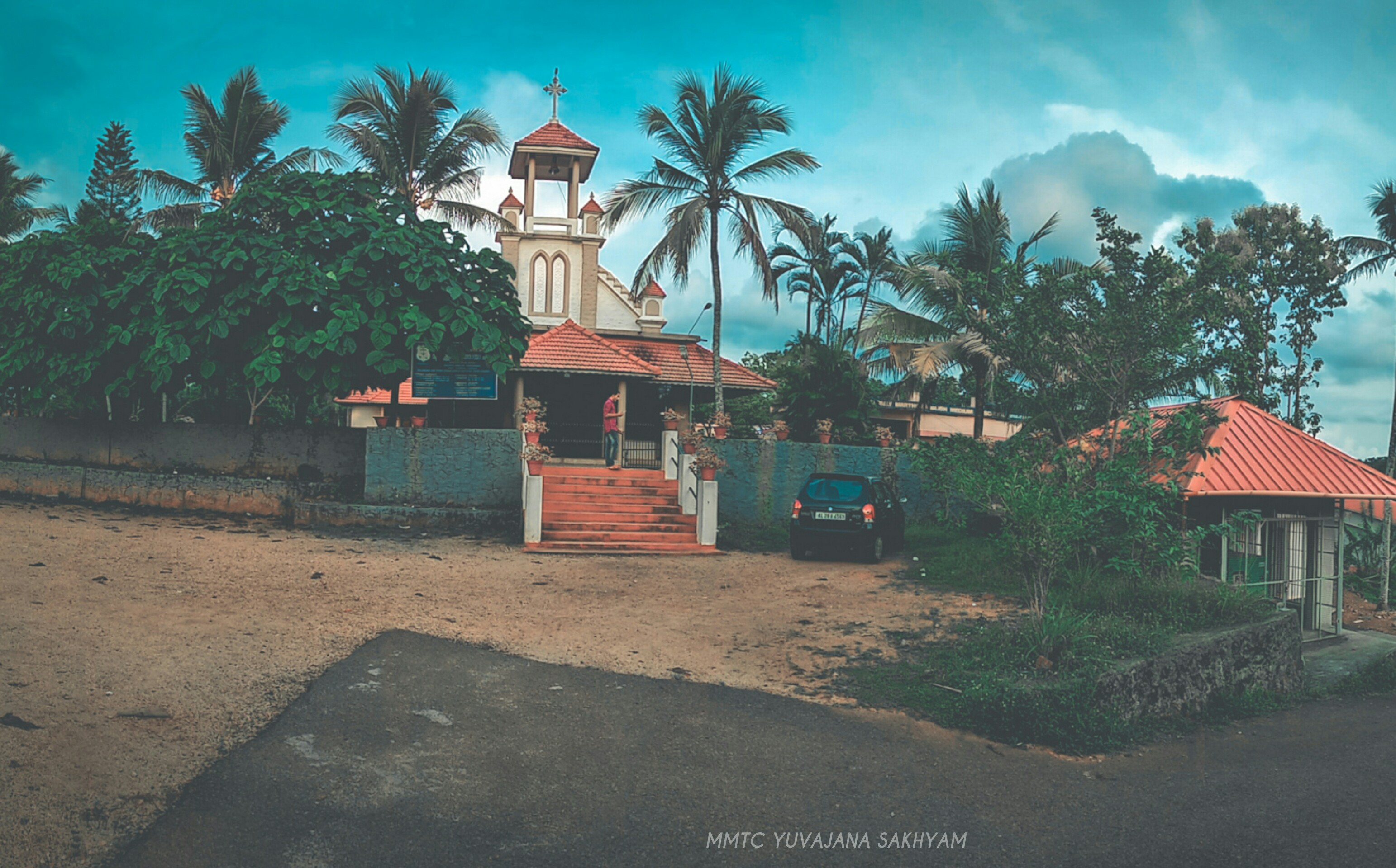 Mallappally Mar Thoma Church